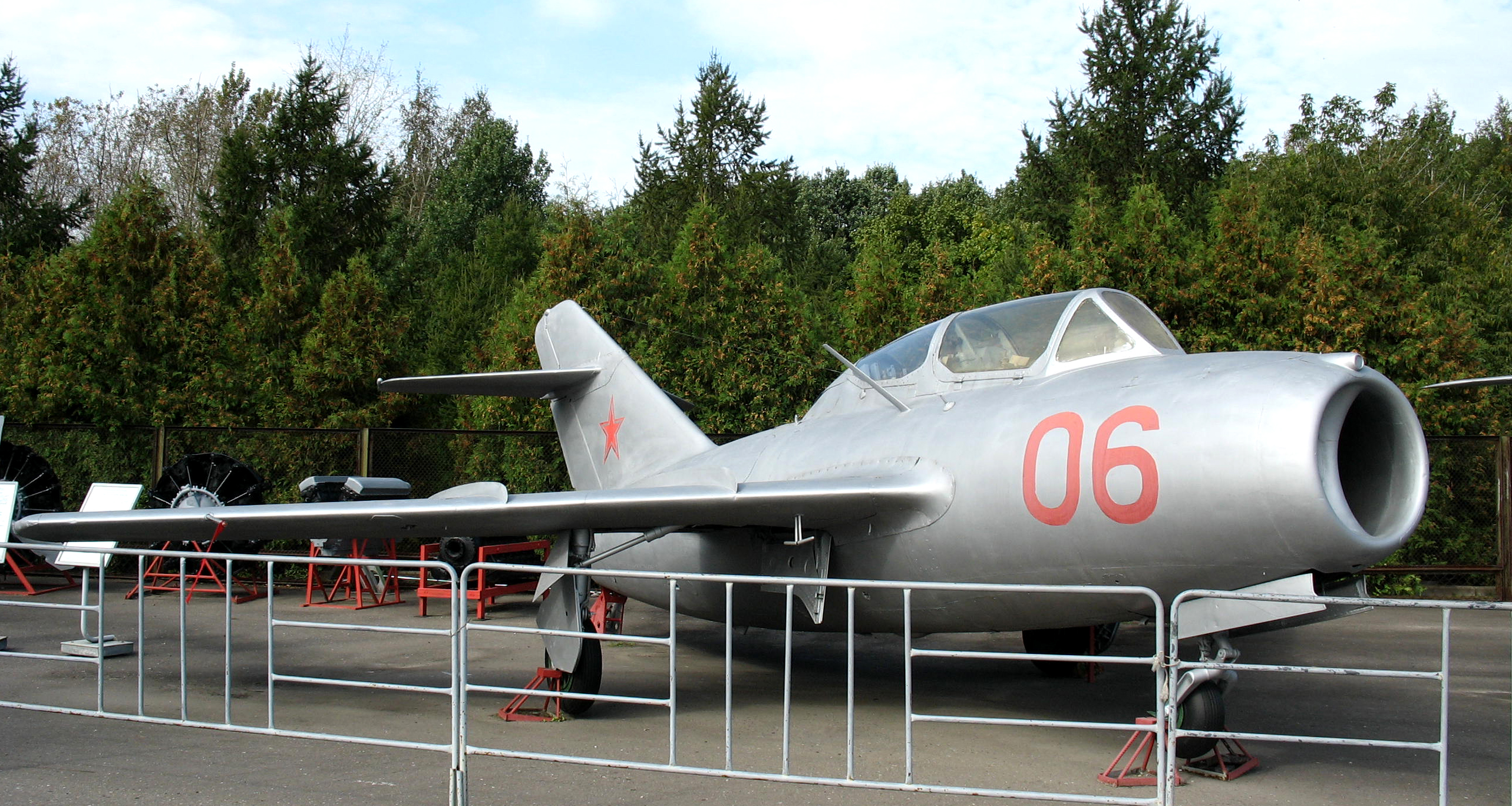 Training fighter UTI MiG-15 (USSR)